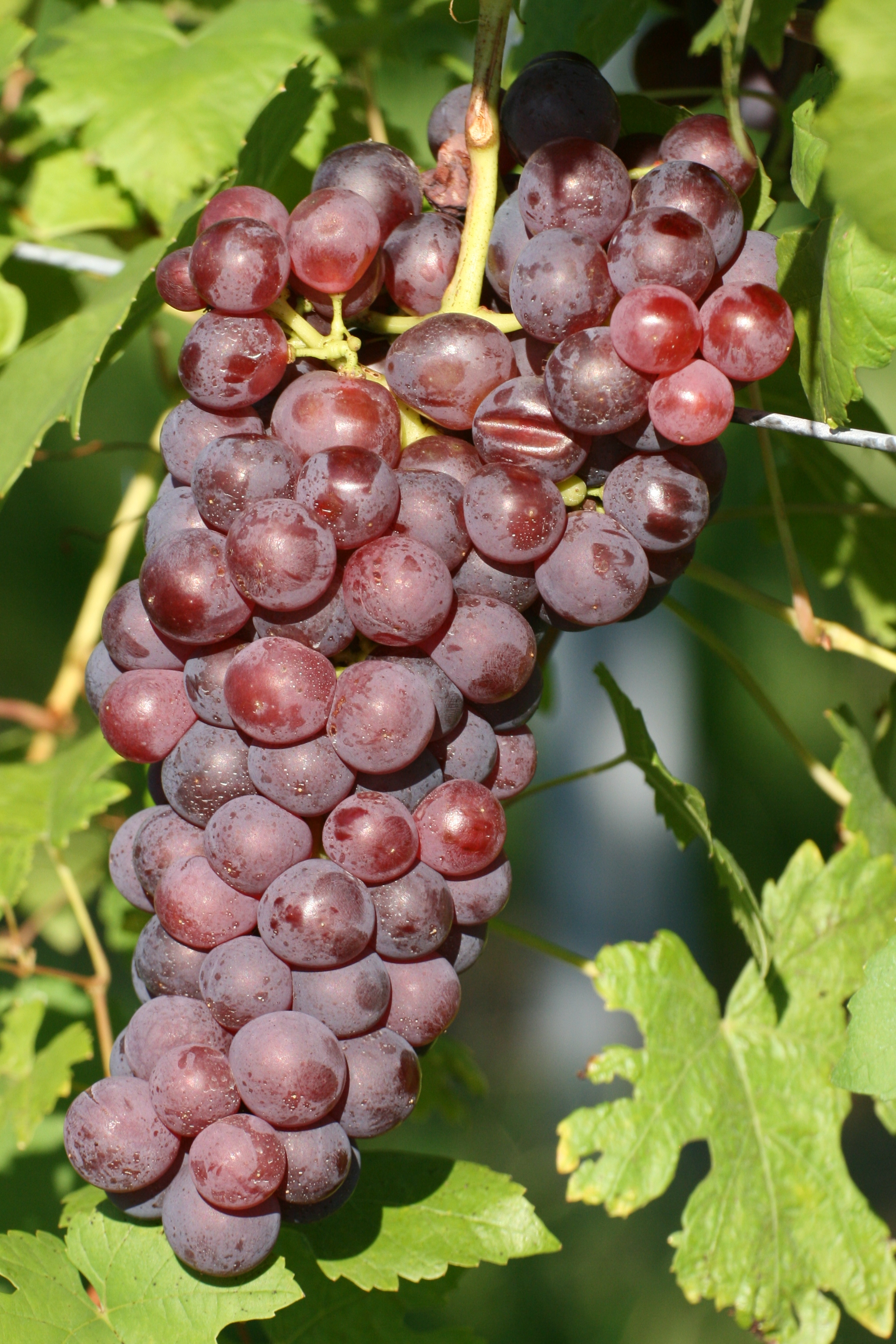 Grapes and leaves of the grape variety Roter Gutedel, photographed in Lehrensteinsfeld